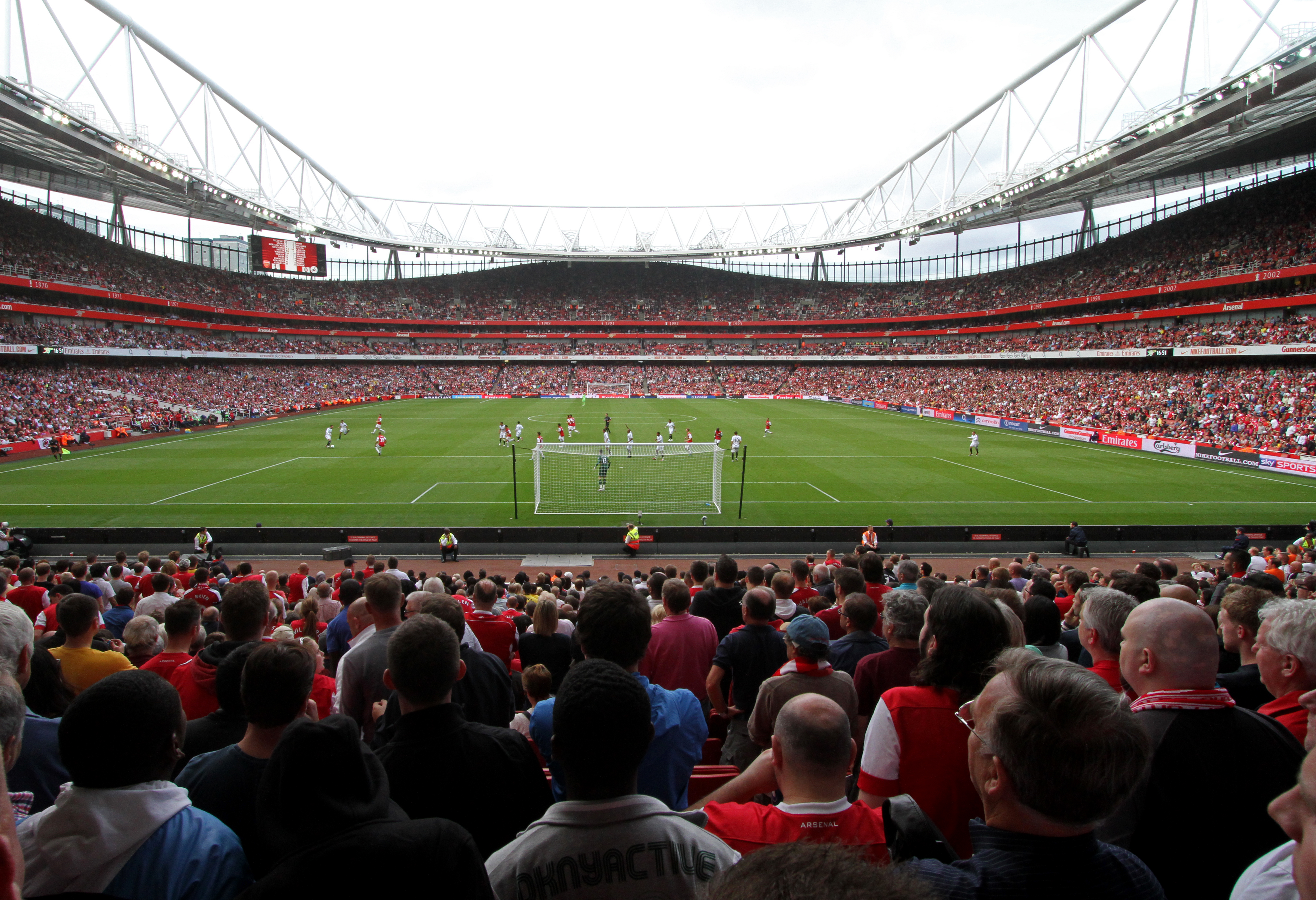 View from behind the goal at Emirates Stadium, London.